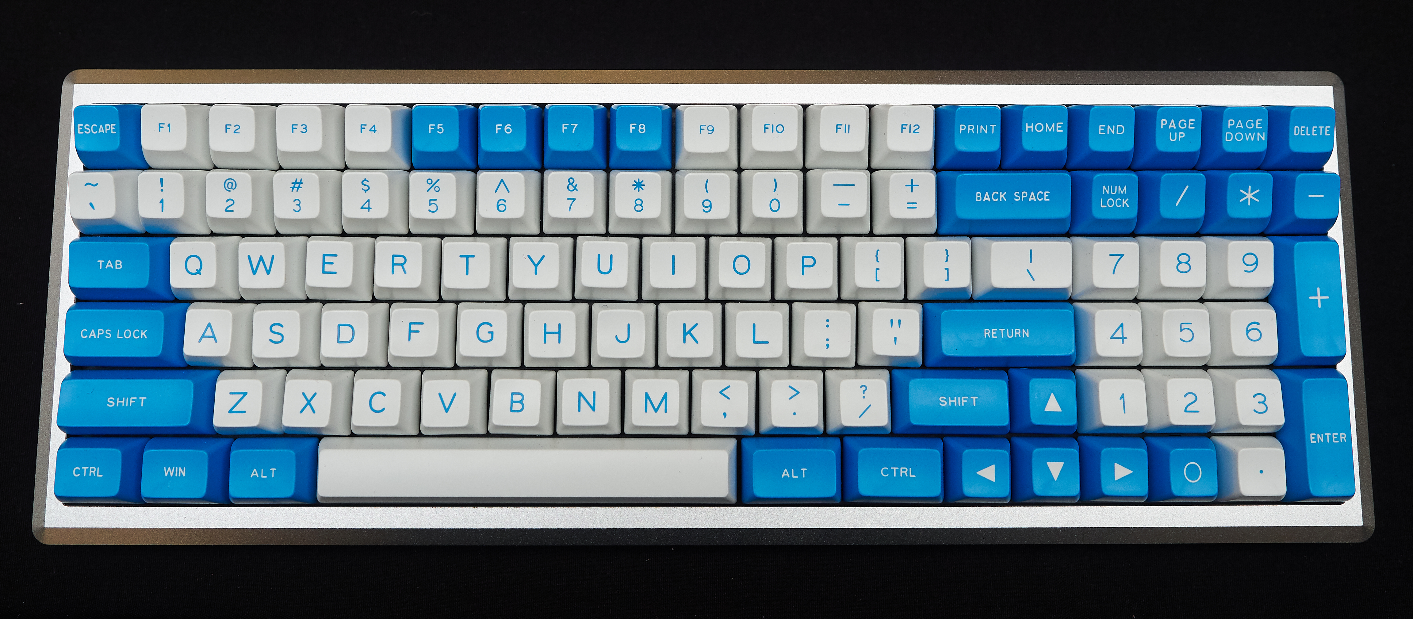 2018 Bay Area Mechanical Keyboard Meetup